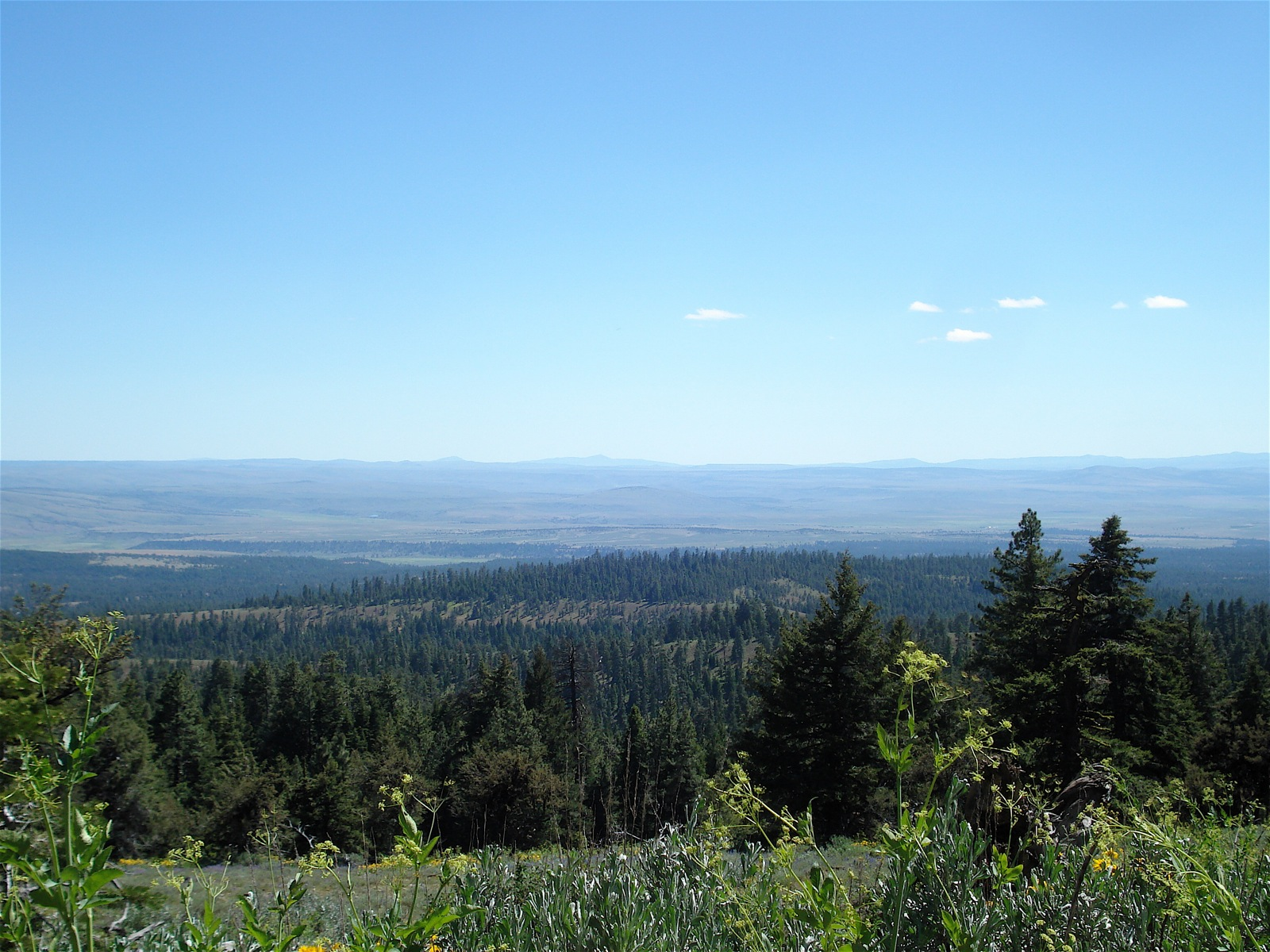 The Black Canyon Wilderness in the Ochoco National Forest in central Oregon